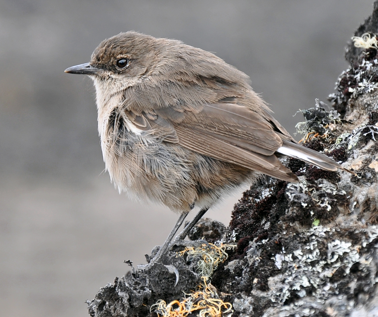 Picture of the moorland chat (Cercomela sordida) taken at Mt. Kilimanjaro